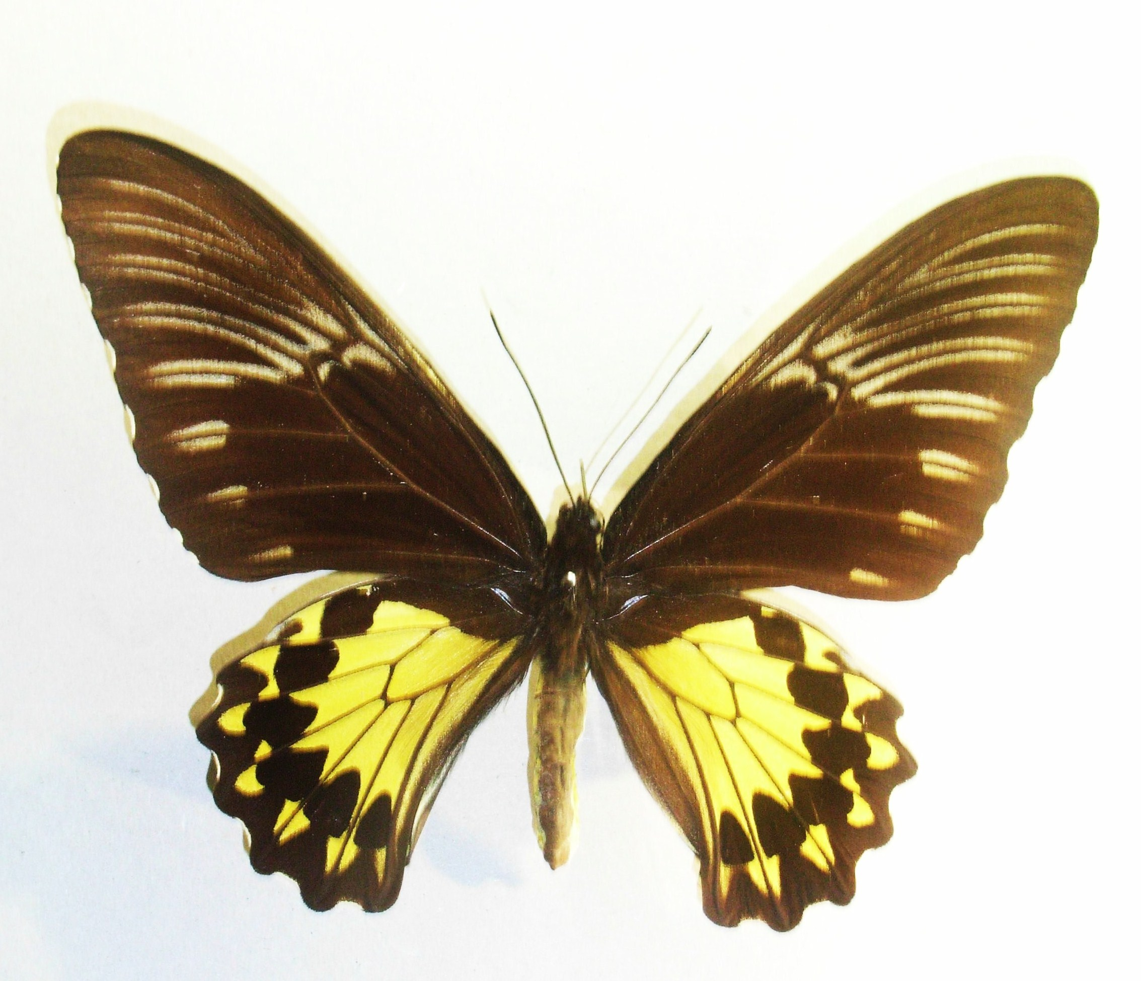 Troides cuneifera female:Papiliionini:Papilionidae